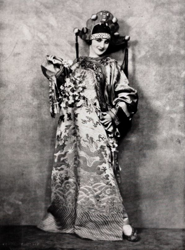 Gladys Frazin in photo study "The Chinese Coat", on page 53 of the August 1923 Shadowland